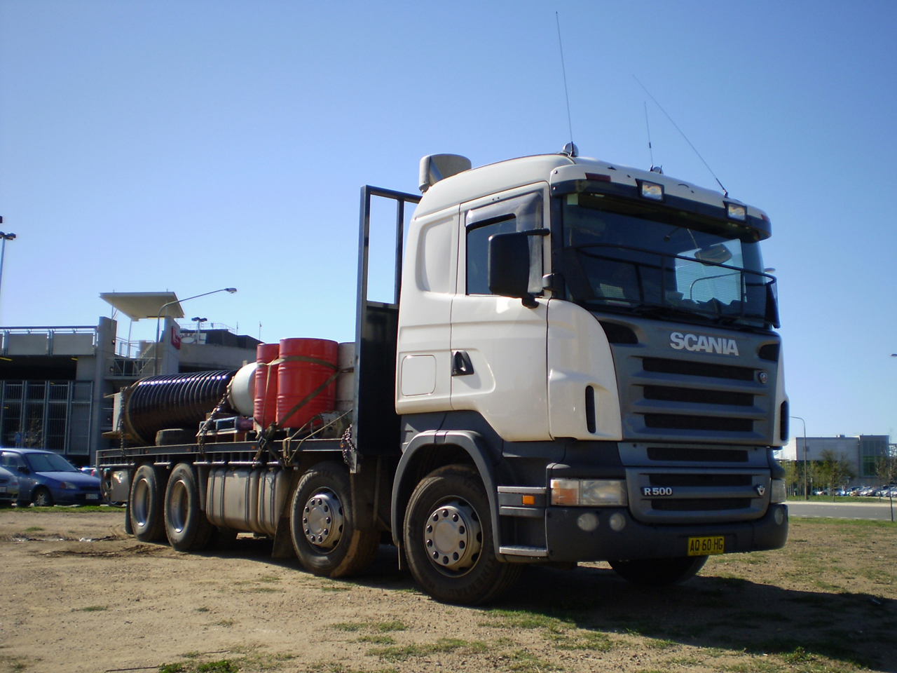 A Scania R500 truck seen here in Canberra ACT.